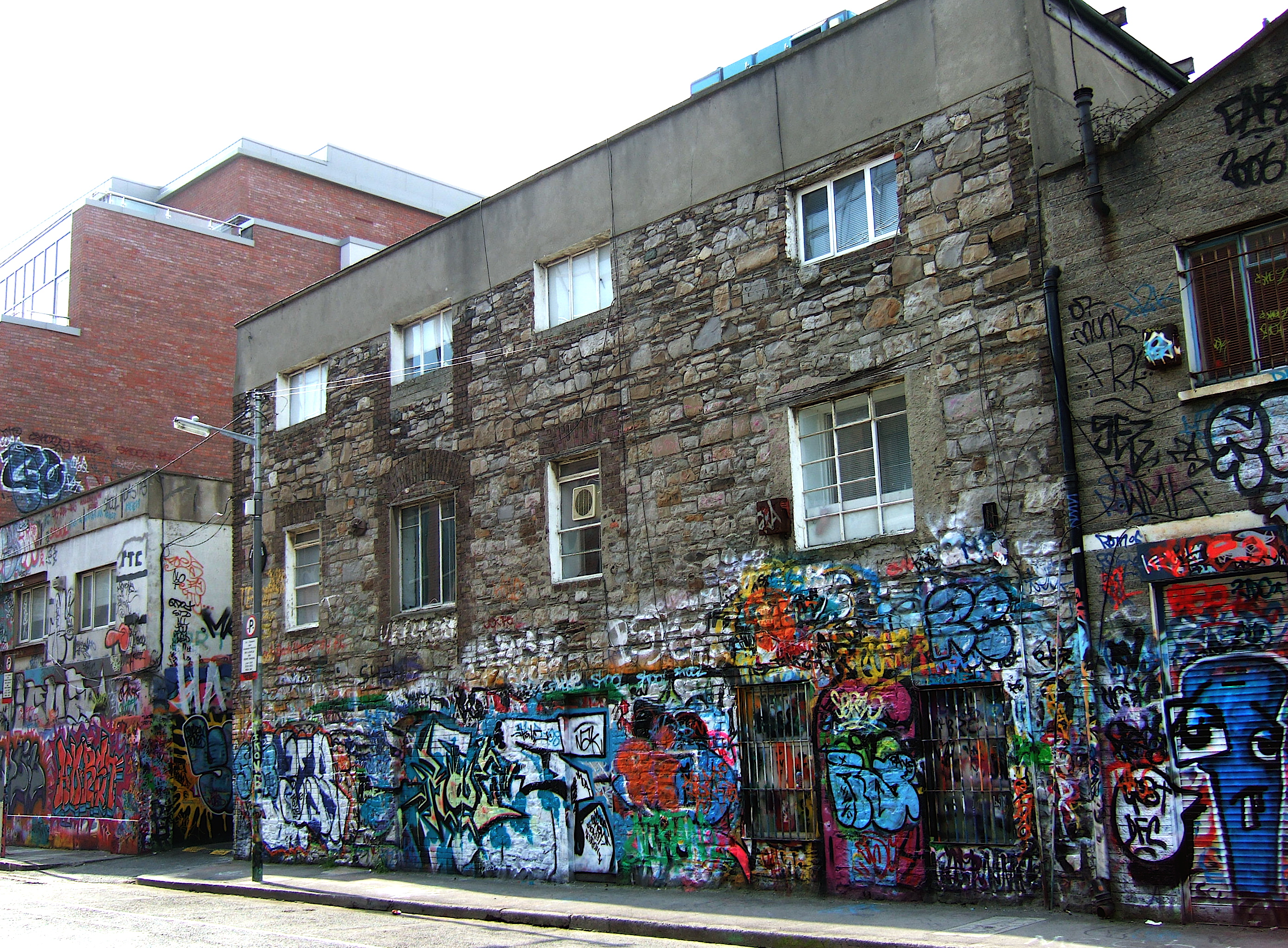 The Windmill Lane Studios in Dublin, Irland